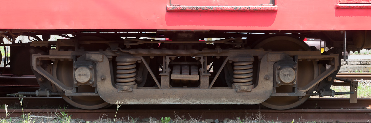 Nippon Sharyo D-16 bogie on Choshi Electric Railway 800 series EMU car DeHa 801